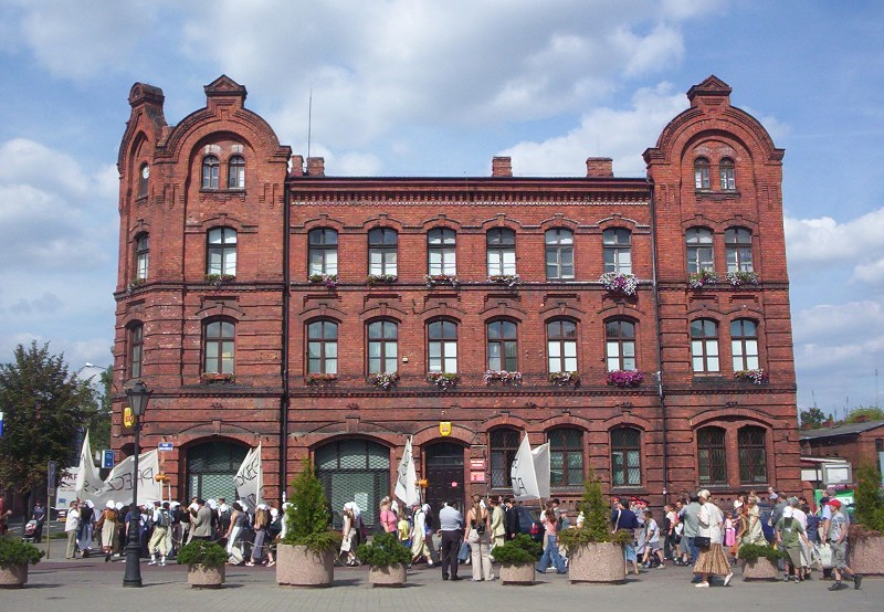 Staging the strike in Żyrardów Textile Factory (1883), during The European Heritage Days 2005 in Żyrardów.